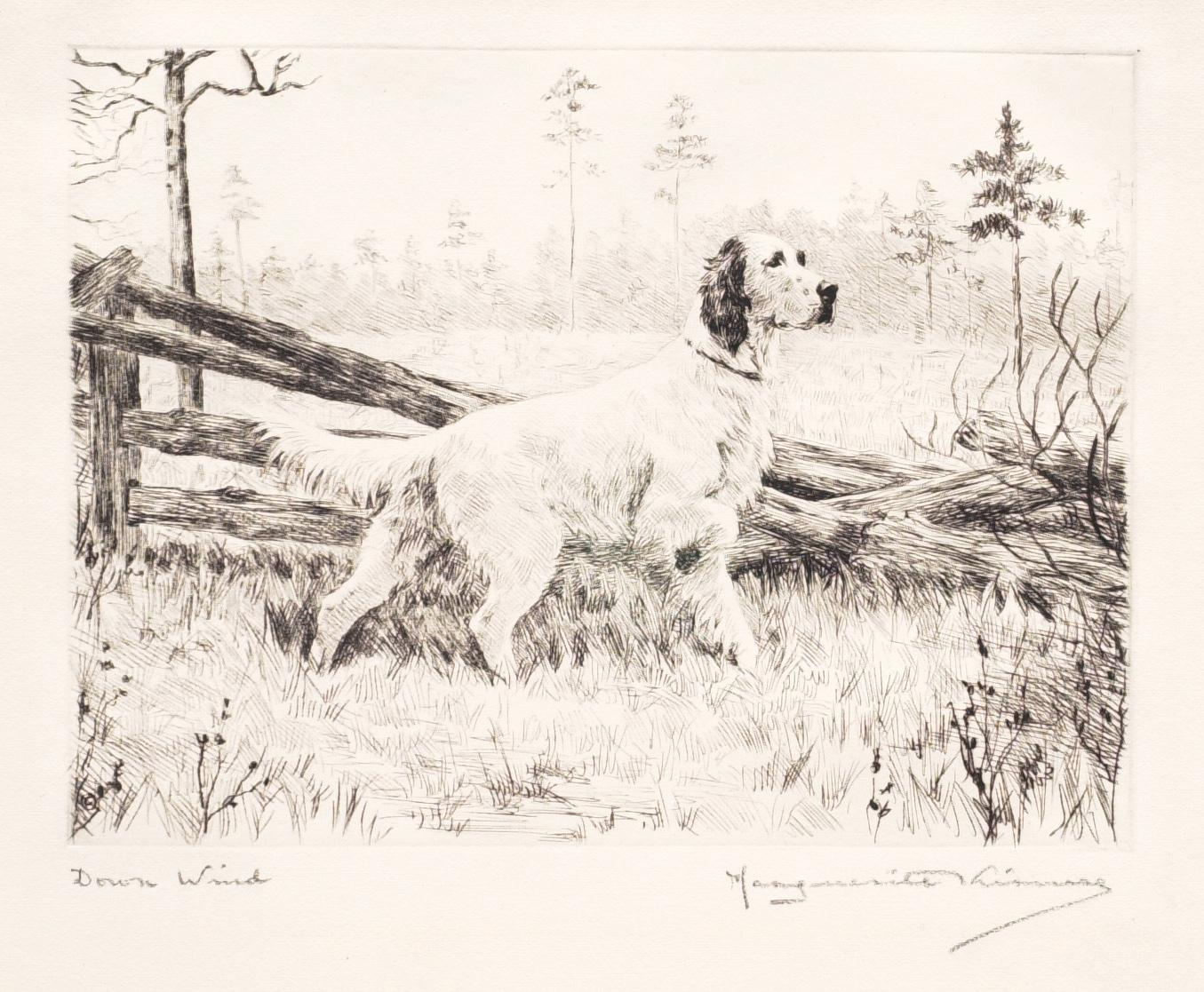 Marguerite Kirmse (American, 1885–1954), Down Wind, drypoint on paper. 5 13/16 x 7 3/4 in. (14.8 x 19.7 cm) Sterling and Francine Clark Art Institute, Williamstown, Massachusetts, USA